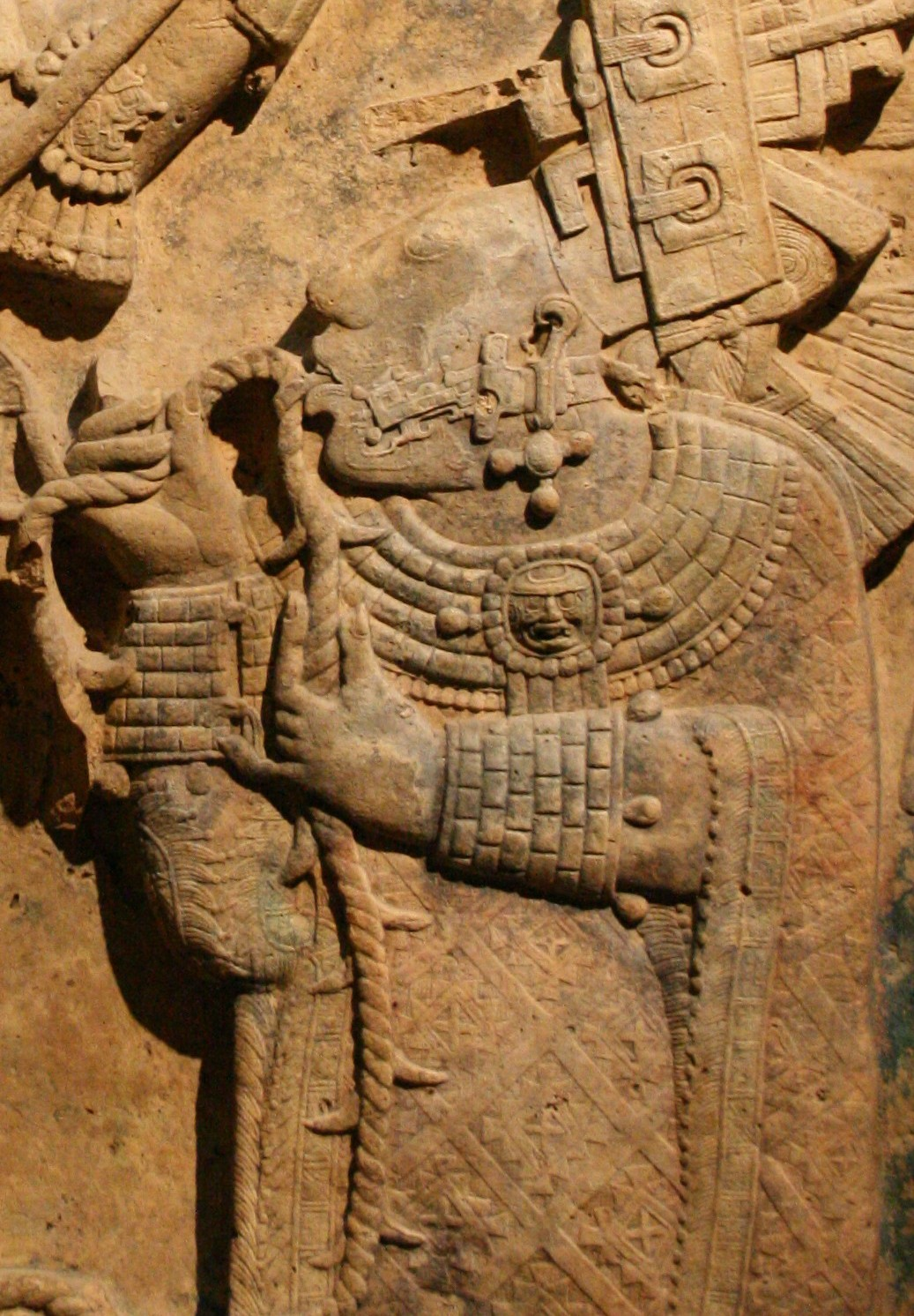 Maya site of Yaxchilan (Mexico). Classic period. Lintel 24 of Structure 23 depicting abloodletting ritual: Lady Xook, wife of king Shield jaguar II drawing blood. From the British Museum.